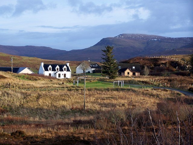 Park Bernisdale